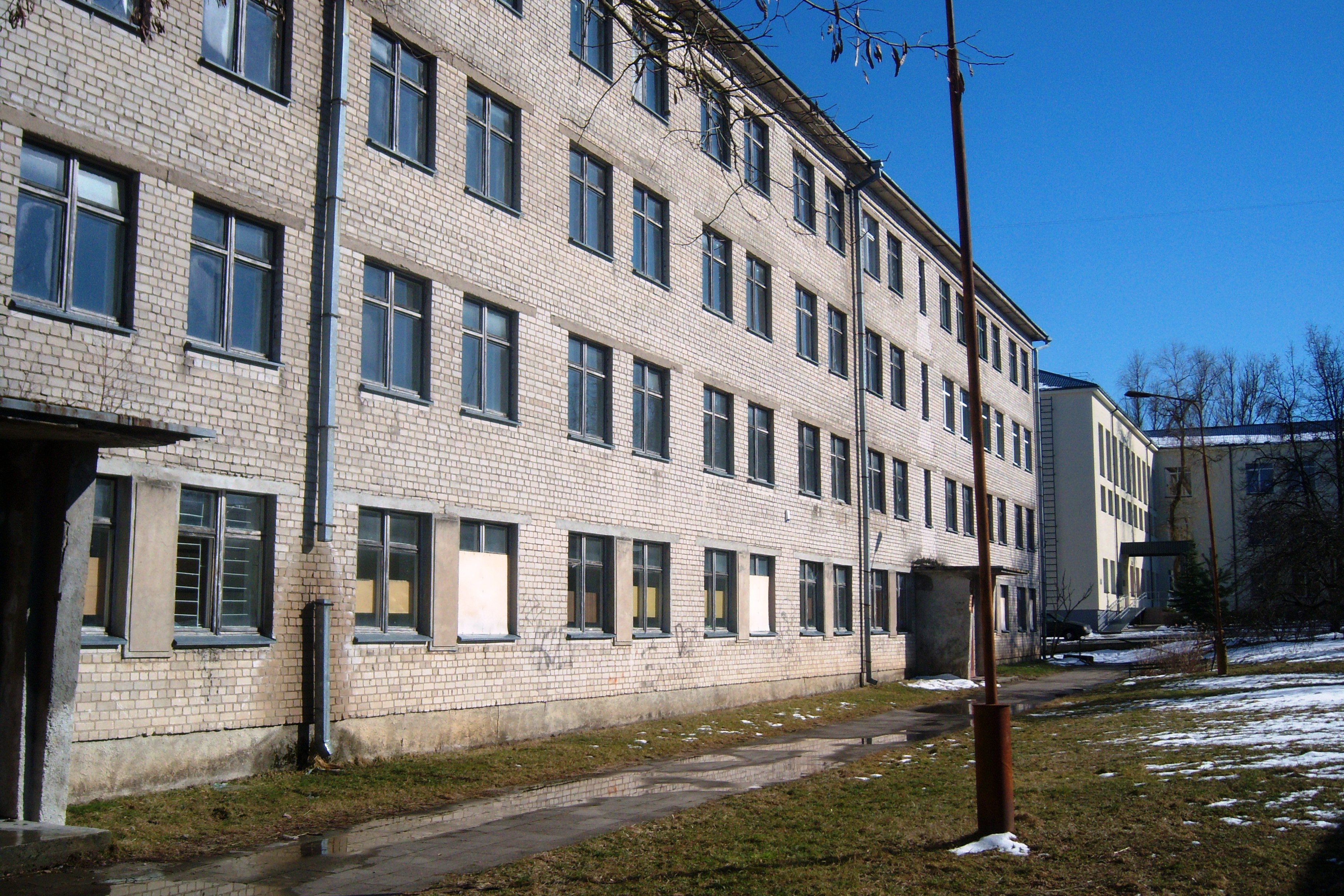 Dormitory of the former secondary boarding school of sports, Trakai, Lithuania